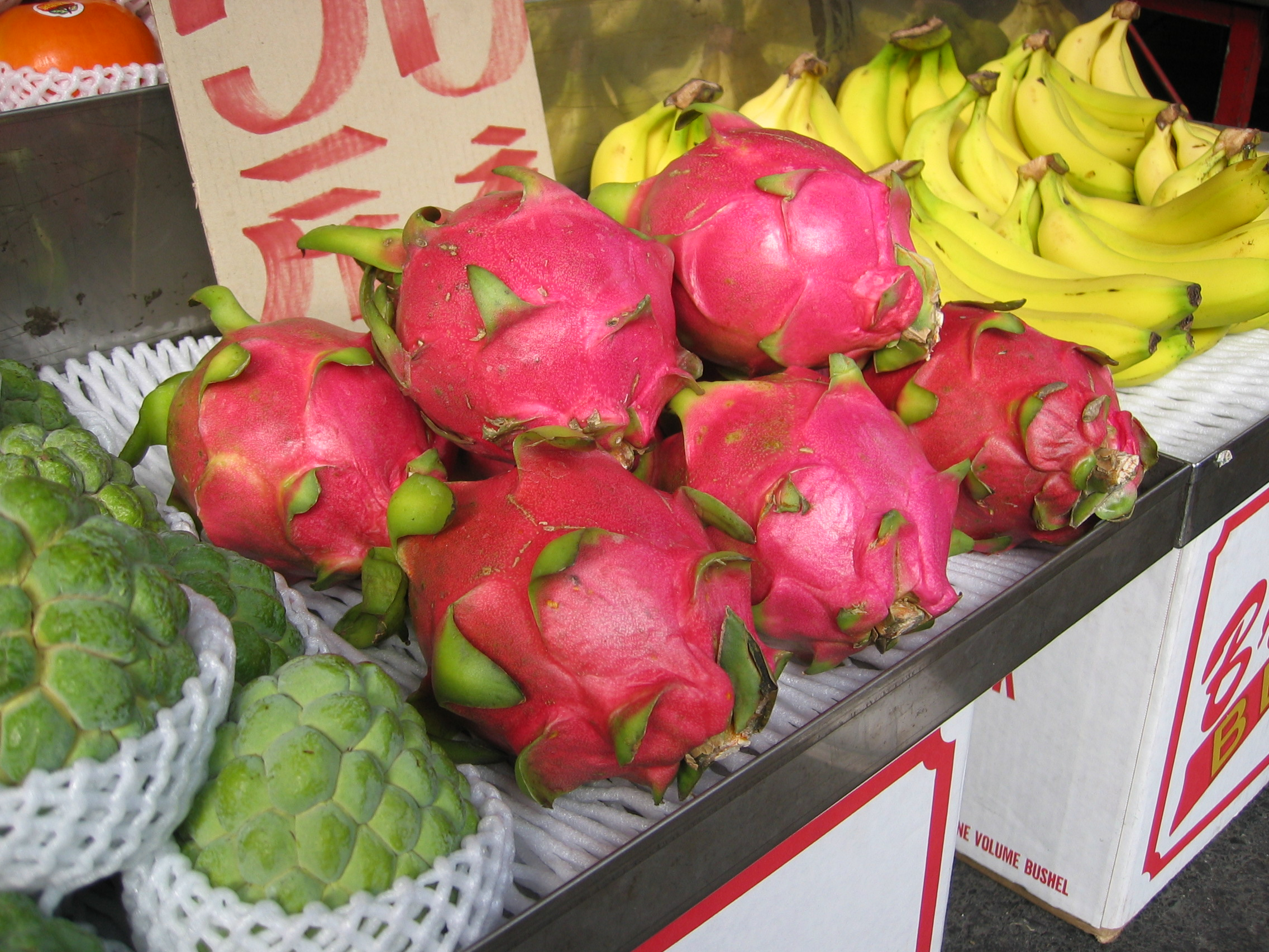 By Etsai from en: The pitaya, also known as dragonfruit or dragon pearl is the fruit of a pitaya cactus. Native to Central and South America, the vine-like cactus is also cultivated in Southeastern Asian countries such as Malaysia, Taiwan, and Vietnam. The fruit comes in three types all with leathery, slightly leafy skin: Hylocereus undatus, white flesh with pink skin Hylocereus polyrhizus, red flesh with pink skin Selenicereus megalanthus, white flesh with yellow skin Bân-lâm-gú: Hué-liông-kó, pinn-á tshenn-sik ê sī sik-kia, āu-piah n̂g ê sī king-tsio. 火龍果，邊仔青色的是釋迦，後壁黃的是弓蕉。